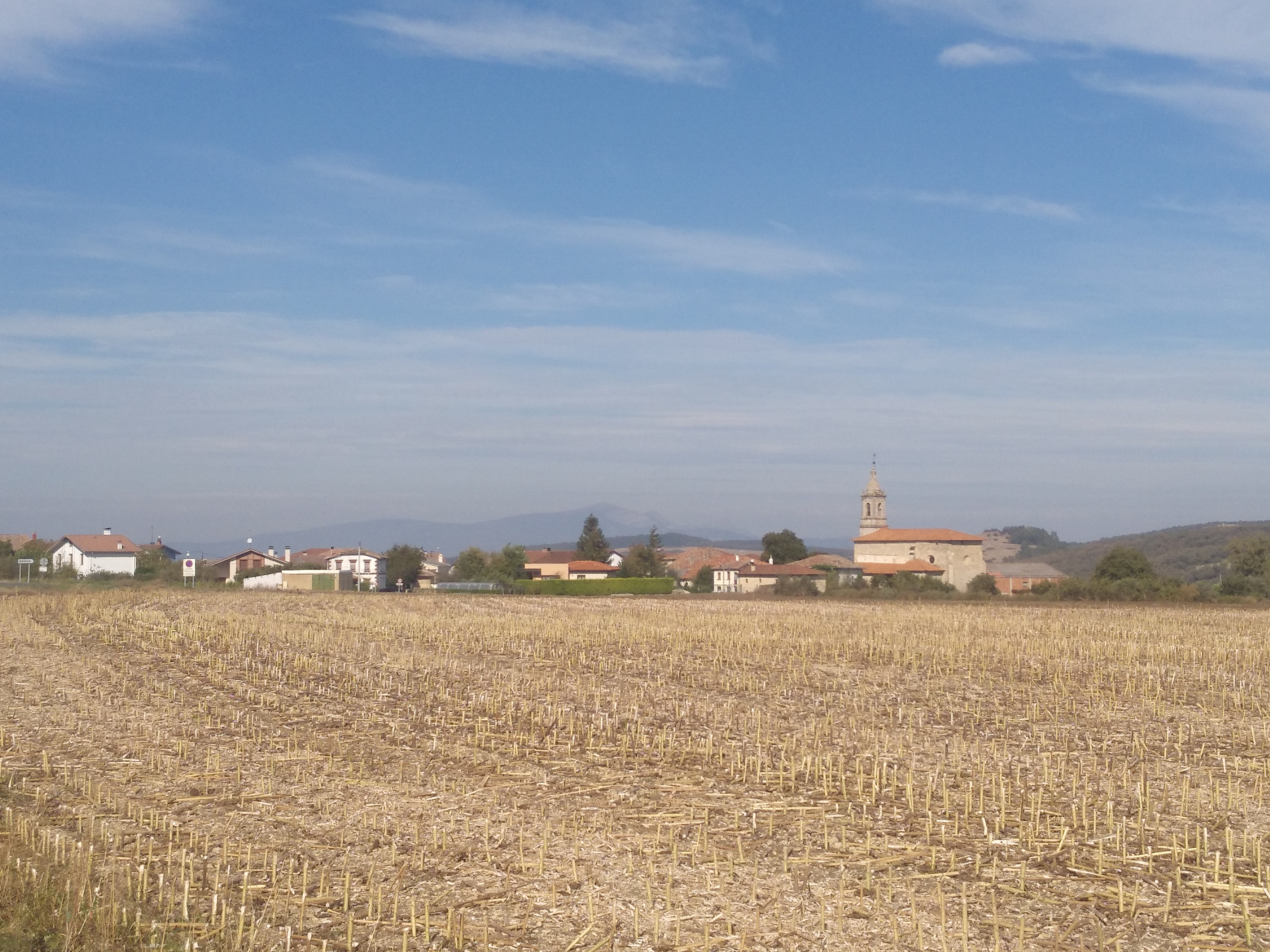 Adana town in Donemiliaga municipality